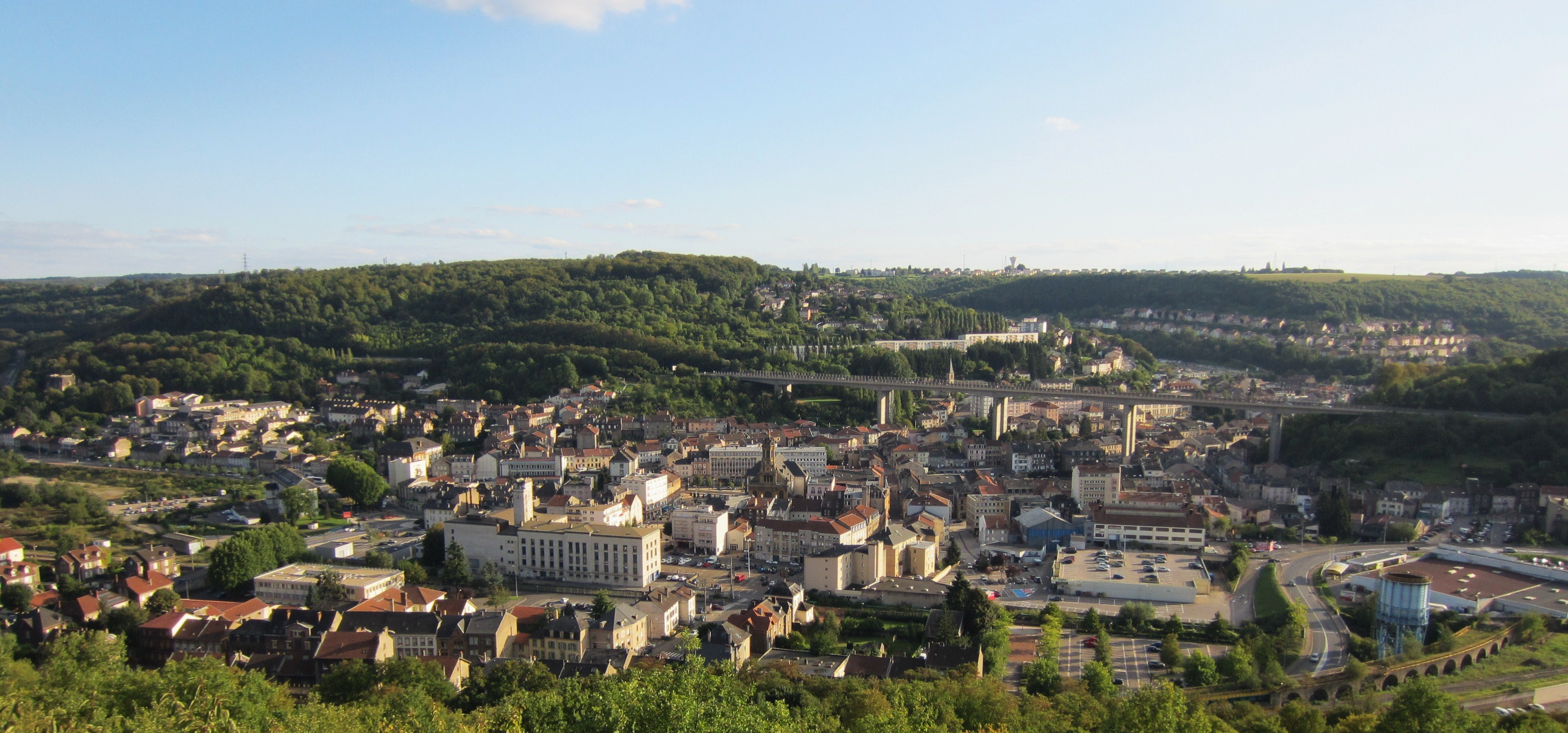 Description vue generale d'Hayange Date31 August 2011Sourcemon appareil photoAuthorAimelaimePermission(Reusing this file) vue generale d'Hayange